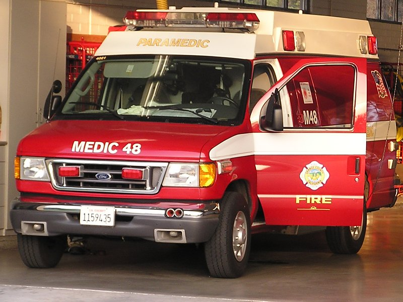 Orange County Fire Authority Medic 48 sitting in the station house